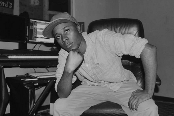 Dizasta Vina